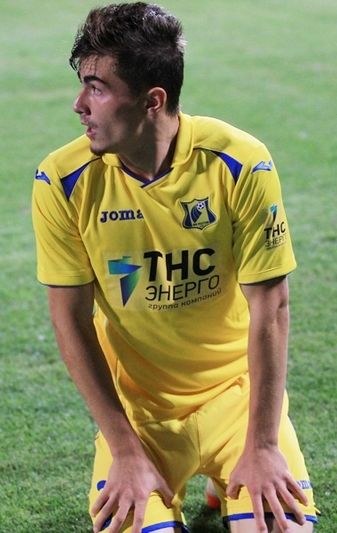 Ruslan Abazov with FC Rostov in 2014.